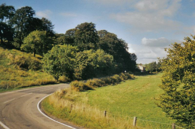 A view from the Chapelhouse Bridge, the site of the Lady's Steps, outside Dunlop in Ayrshire, showing the site of the Monastic settlement at Chapel Crags with St.Mary's House in the distance.